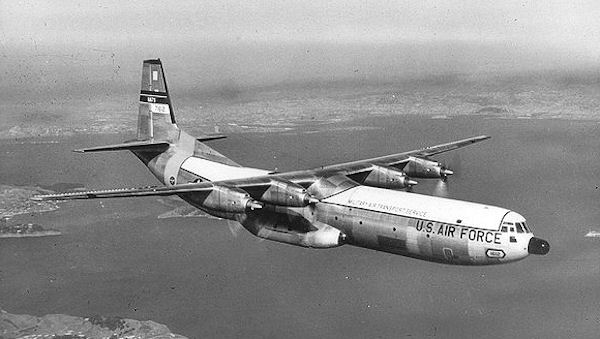 Douglas C-133A-5-DL Cargomaster 54-142 39th Military Airlift Squadron 1607th Air Transport Group. Aircraft scrapped in 1971.